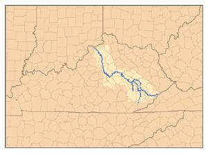 This is a map of the Kentucky River watershed, showing the North Fork, Middle Fork, and South Fork tributaries. I, Pfly, made it, based on USGS data.